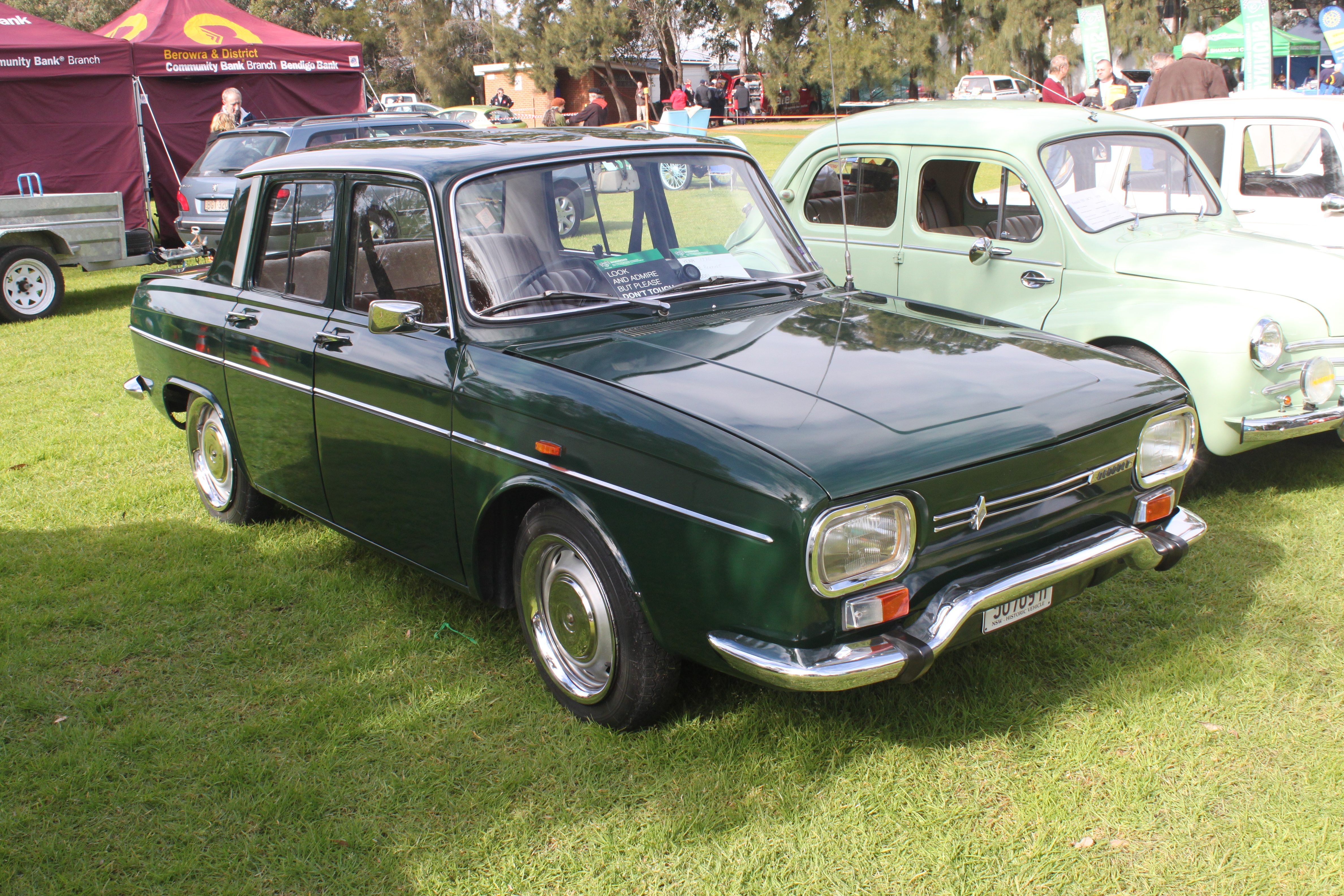 All French Day, Silverwater Park, NSW July 2015